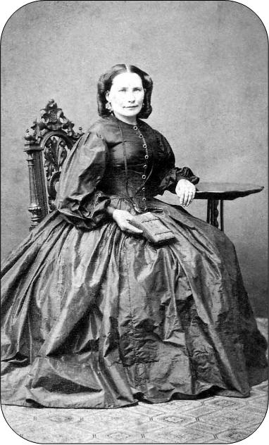 Hotel manager Sofia Maria Gäfvert (1832-1866), sister of Carl J. Sandberg's father-in-law, as released by image owner FamSACPlace: Stockholm, Sweden